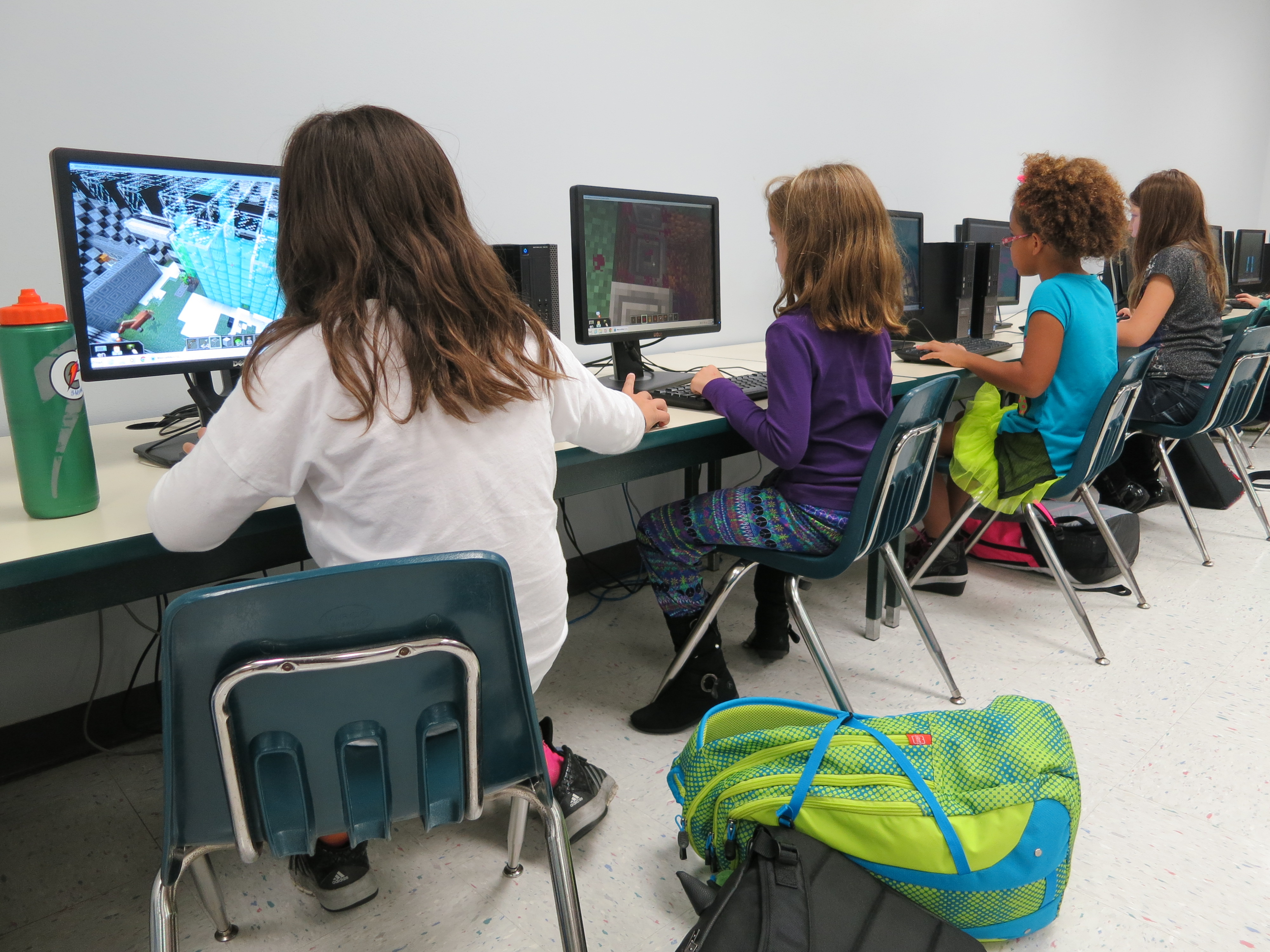 Students in our Minecraft After School Program enjoying themselves and working/building together